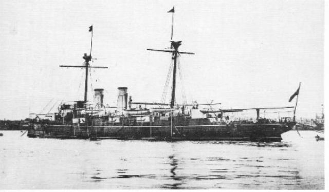 The Reina Regente Cruiser, was launched in 1888 and sank in 1895